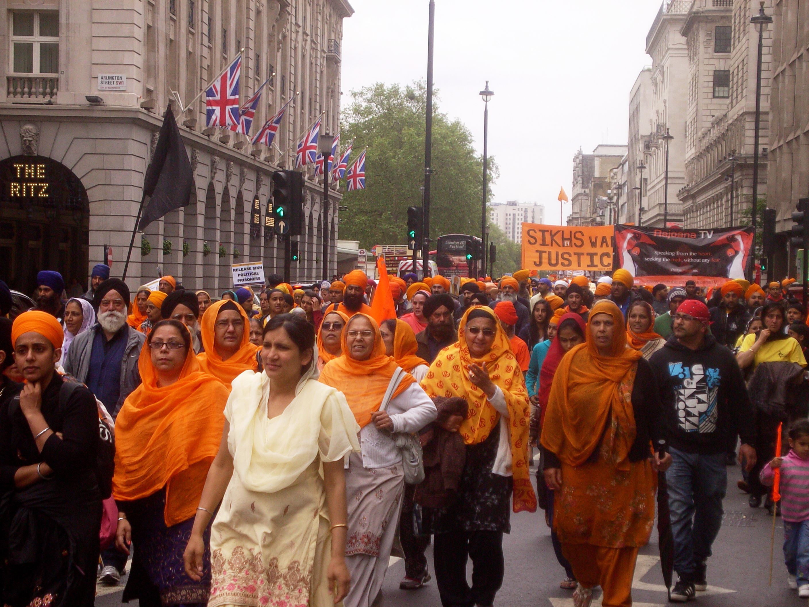 Justice for Sikhs in India march, London 10-Jun-12, (